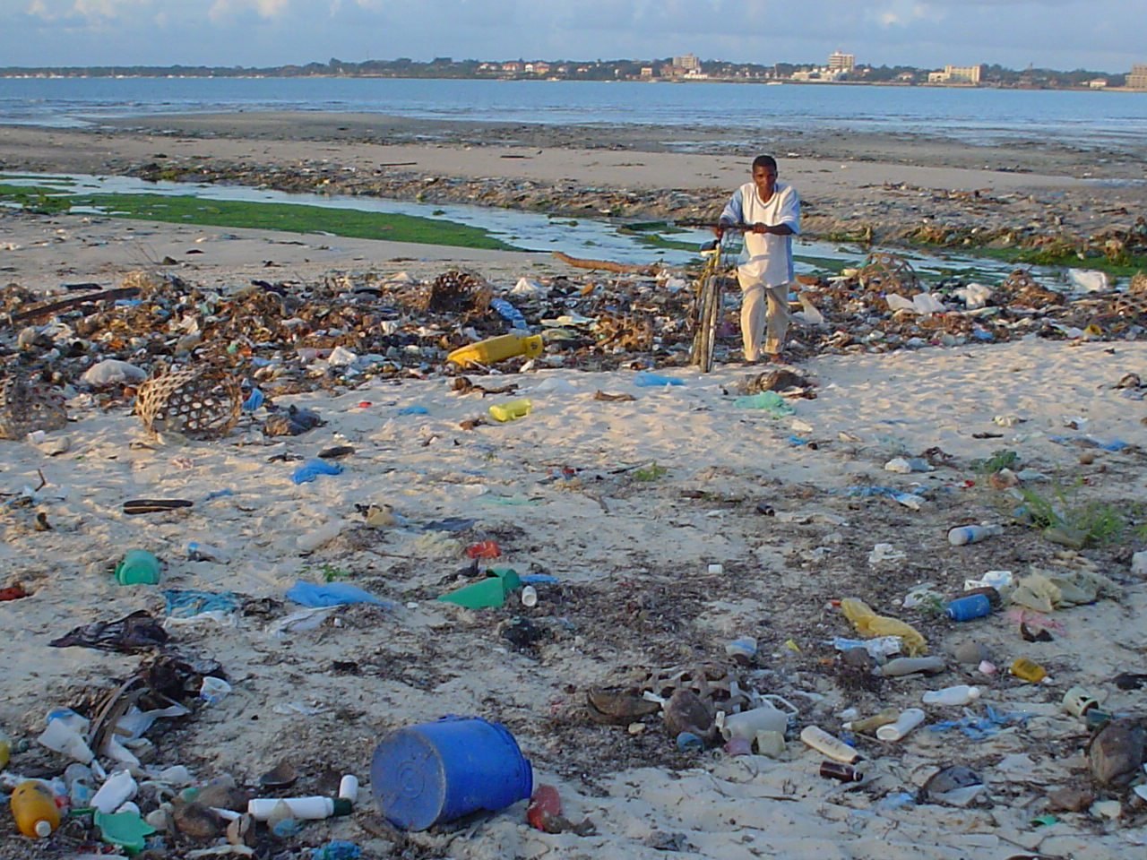 Beach at Msasani Bay, Strand bij Msasani Baai, Dar es Salaam, Tanzania